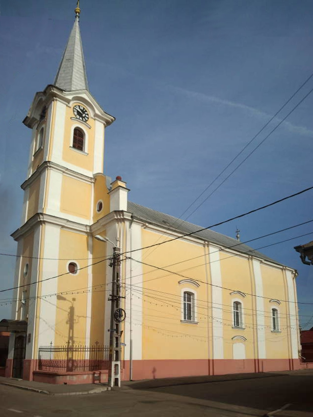 "Michael and Gabriel Archangels" Orthodox Church, Velenta, Oradea